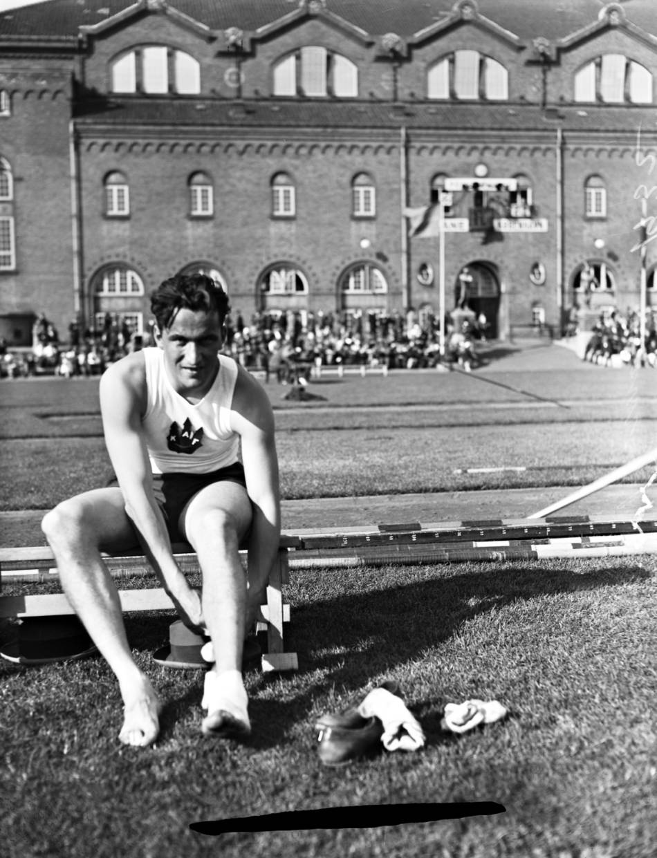 Willy Rasmussen (Danish athlete)